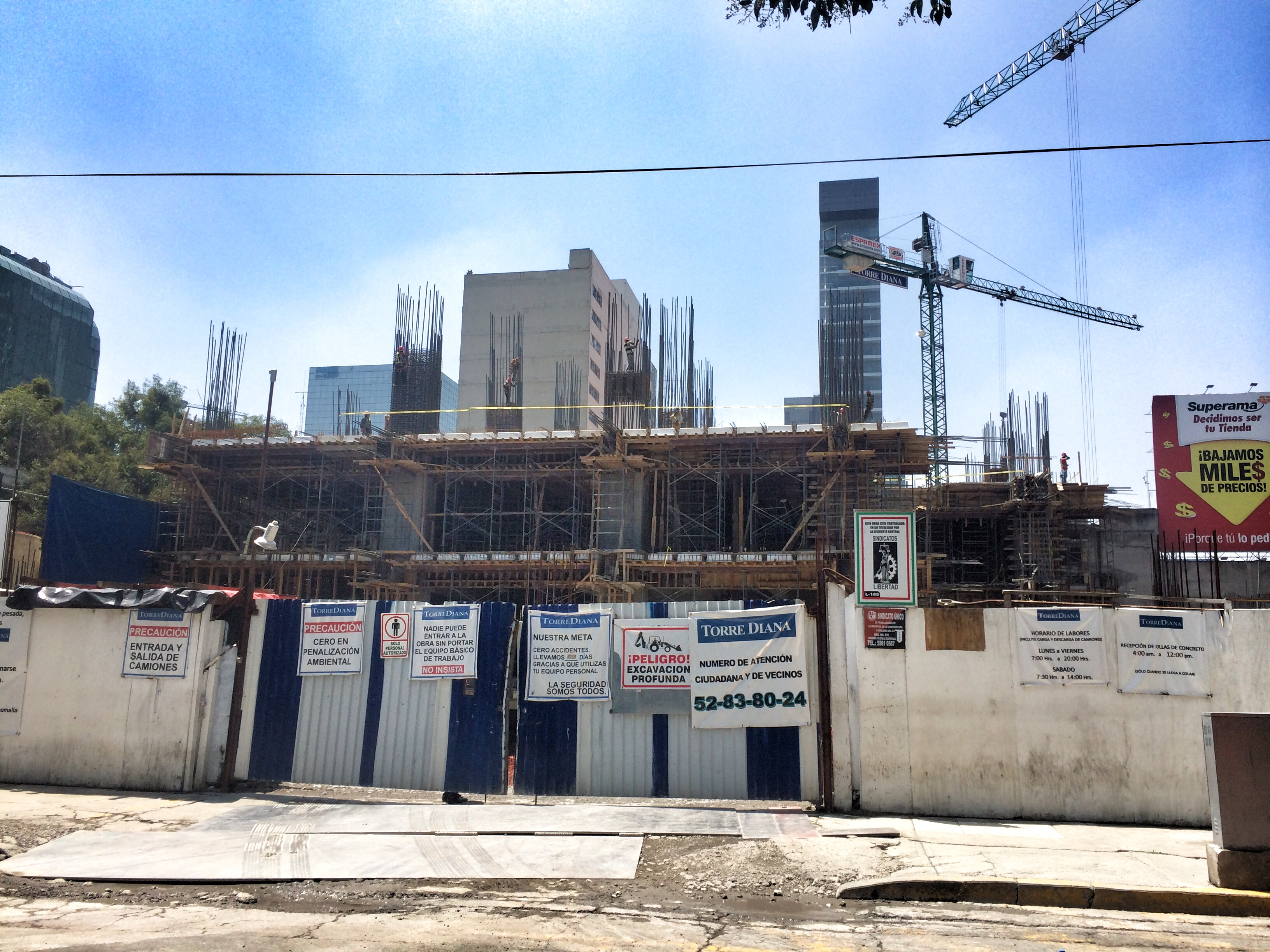 Torre Diana construction July 29 2014